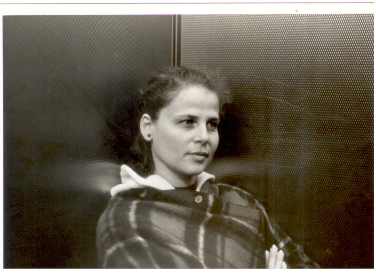 Oshra in a self portrait